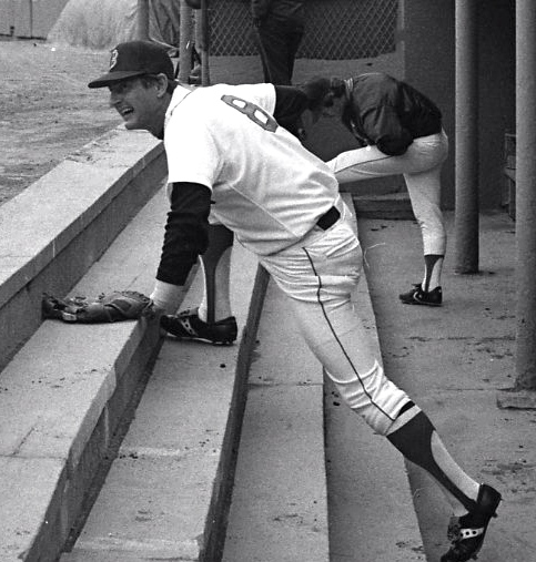 Boston Red Sox, Carl Yastrzemski on Dugout steps of Fenway Park. 1970's